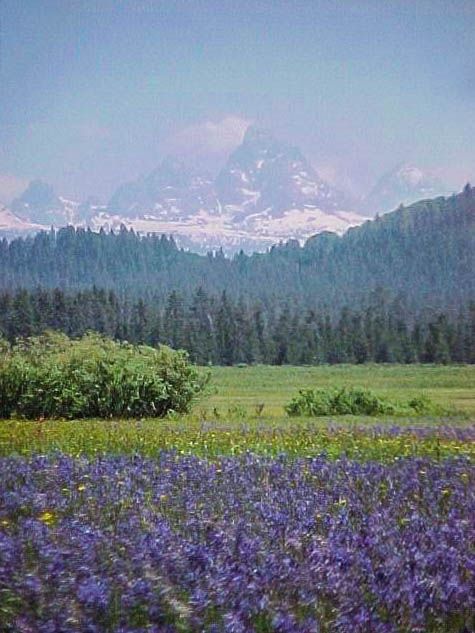 The less often seen vista of the Teton Range from the west in Caribou-Targhee National Forest, Idaho, United States